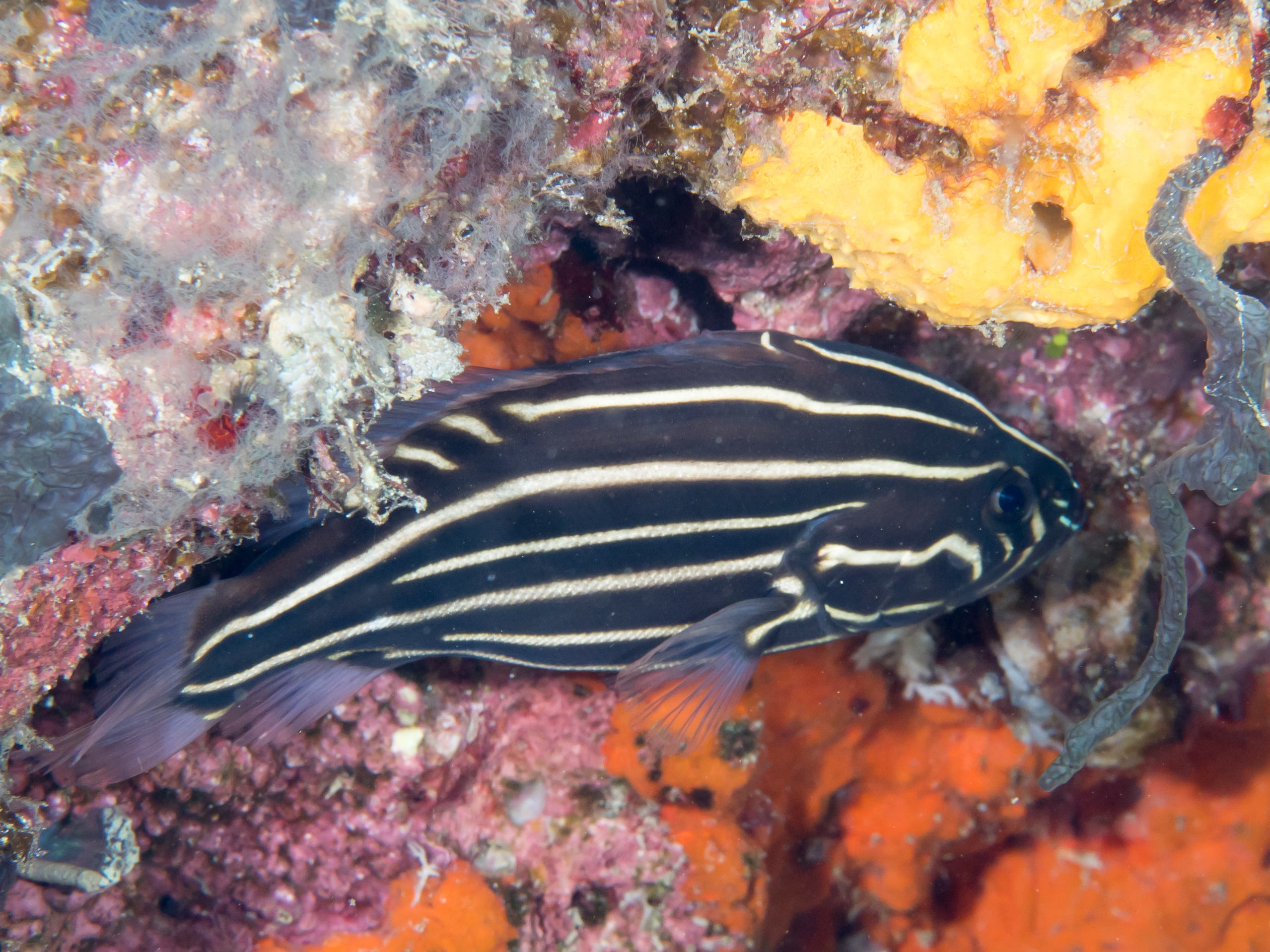 Morotai, Indonesia - Sixlined soapfish (Grammistes sexlineatus)